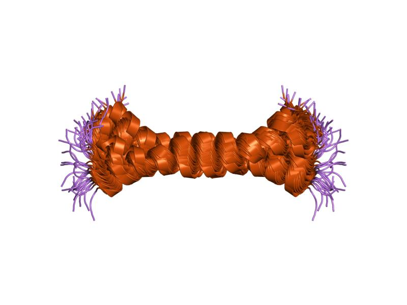 Cartoon representation of the molecular structure of protein registered with 1hf9 code.